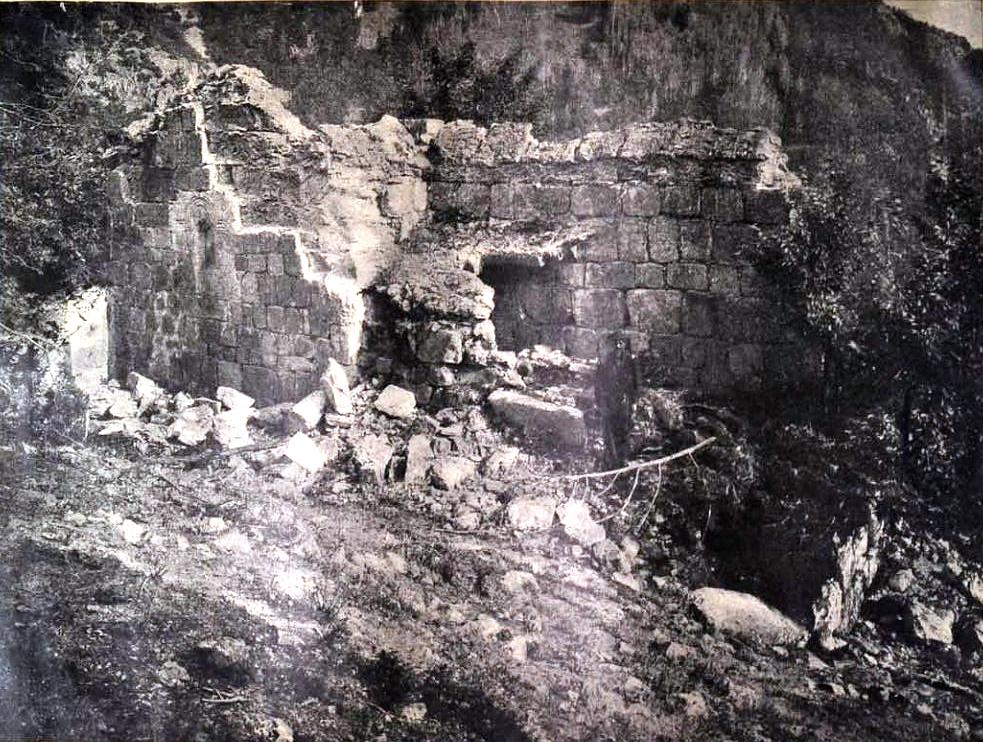 Tsqaros-Tavi monastery, a ruined medieval Georgian monument, as viewed from north-west (present-day Turkey).